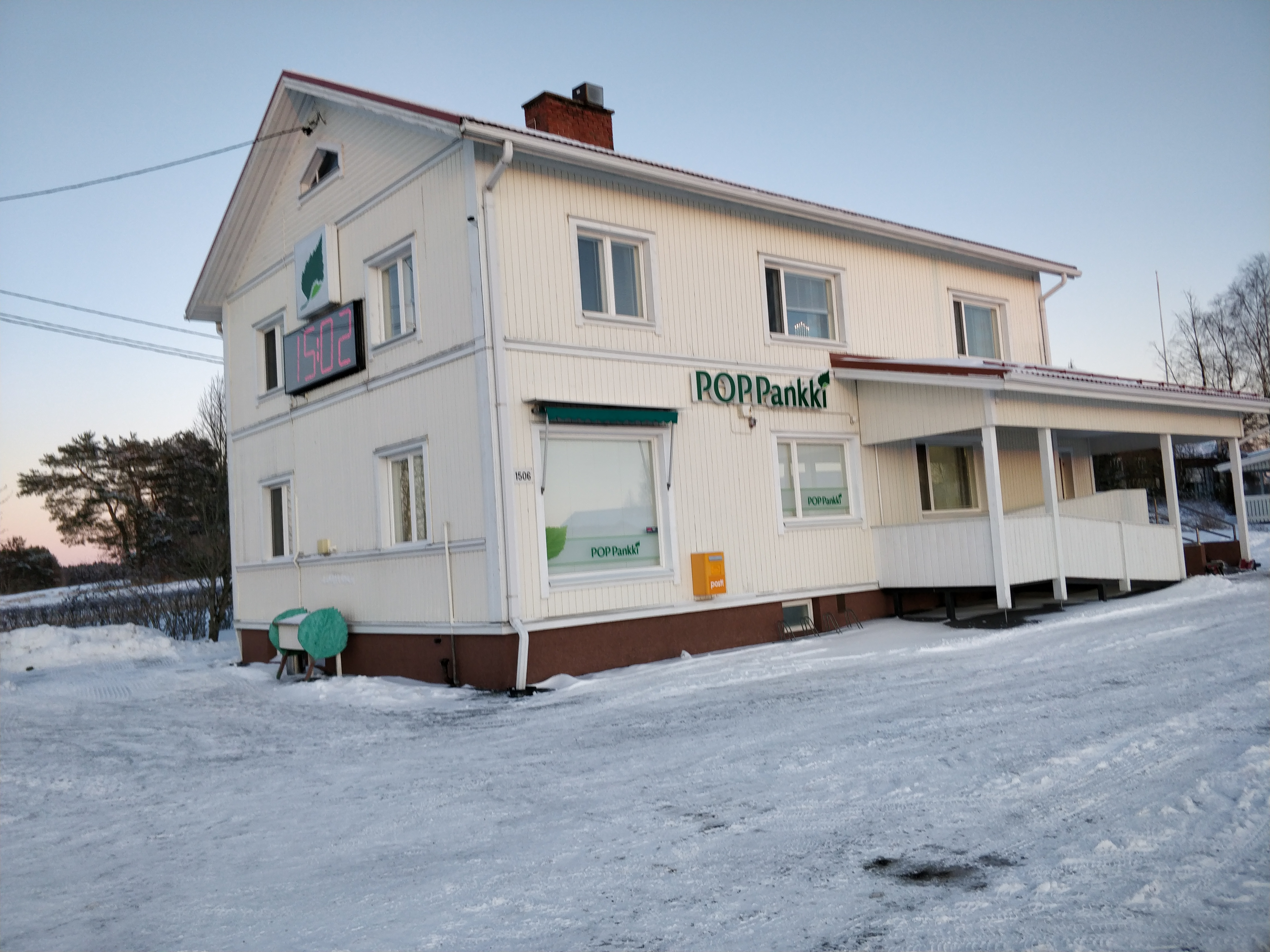 Photograph of co-operative bank ‘Tiistenjoen Osuuspankki’ -located within municipality Lapua. Taken 8.1.2018 at 15:02.